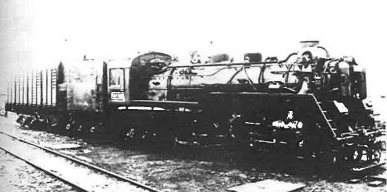 Builder's photo from 1941 of Mikaku501, a steam locomotive with experimental condensor tender built for the Kwantung Army and operated by the Manchukuo National Railway.